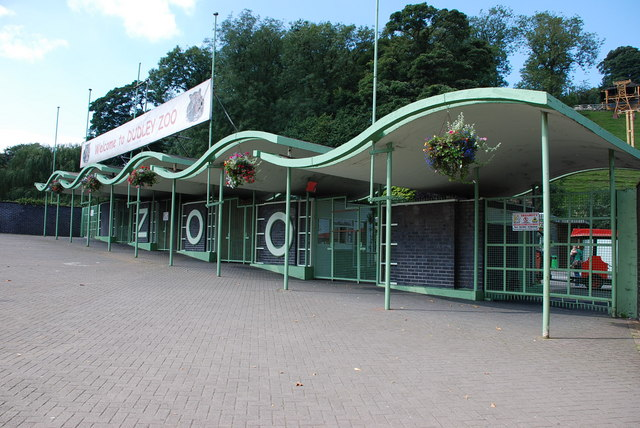 Entrance to Dudley Zoo, West Midlands, England, United Kingdom